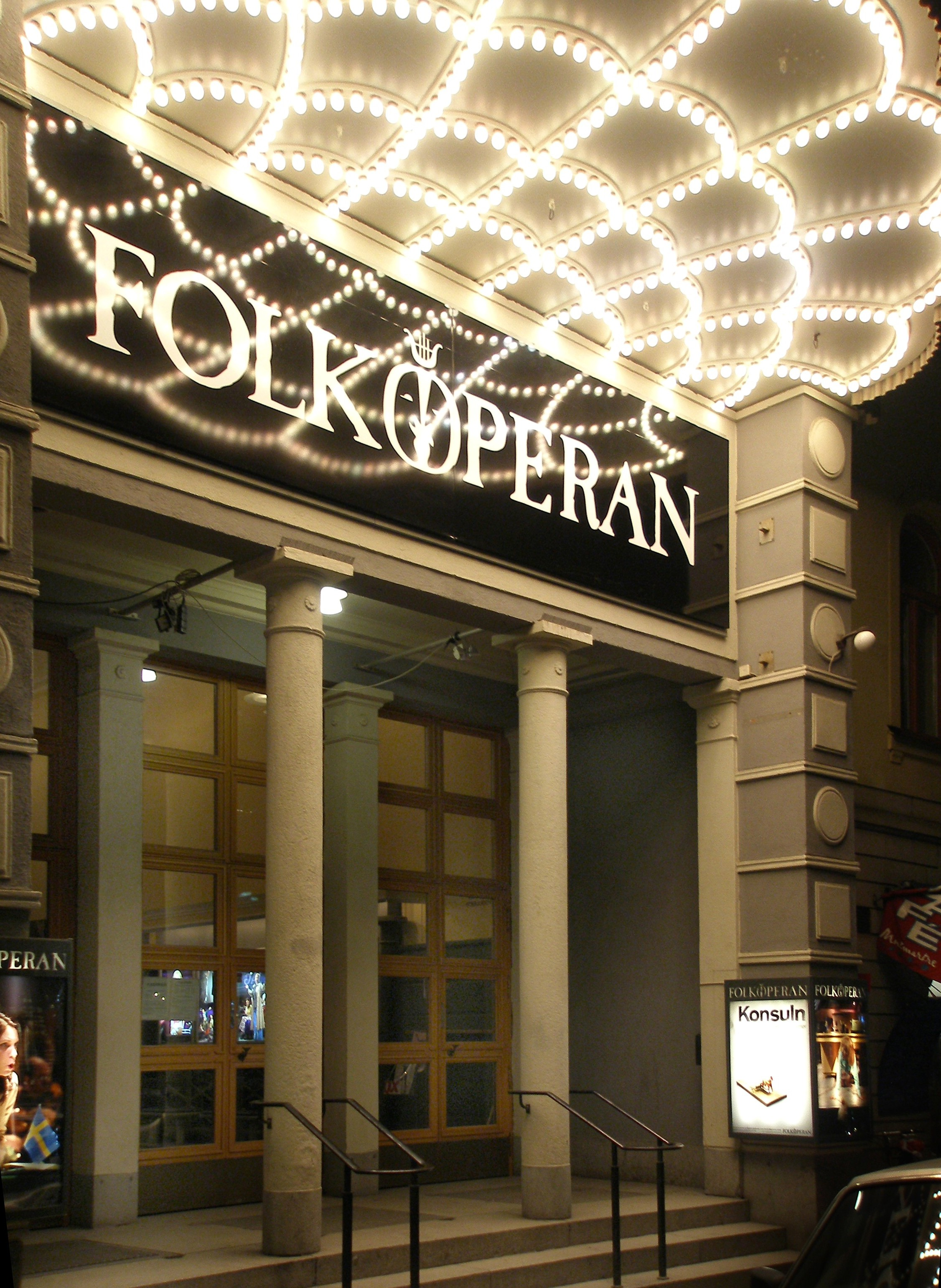 Folkoperans fasad